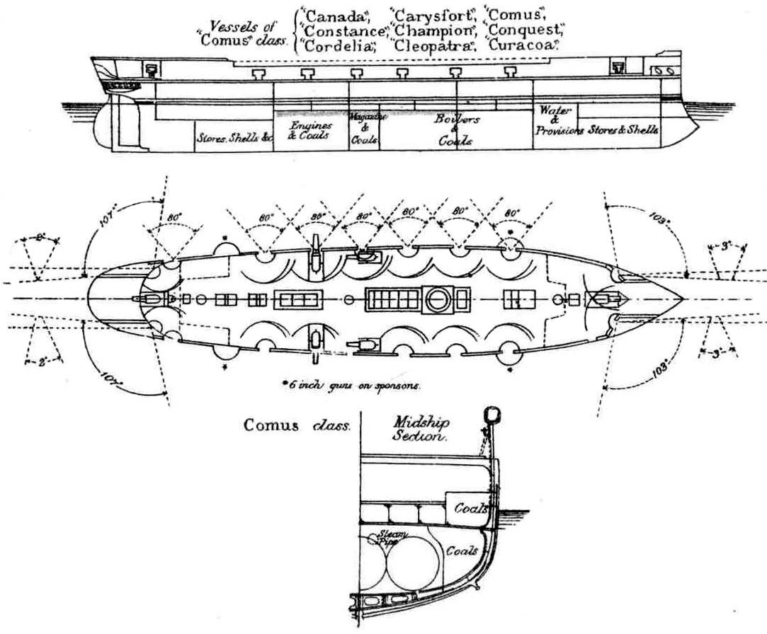 Deck plan, right elevation and hull cross-section diagrams of British Comus class screw corvette. Canada, Carysfort, Comus, Constance, Champion, Conquest, Cordelia, Cleopatra, Curacao..